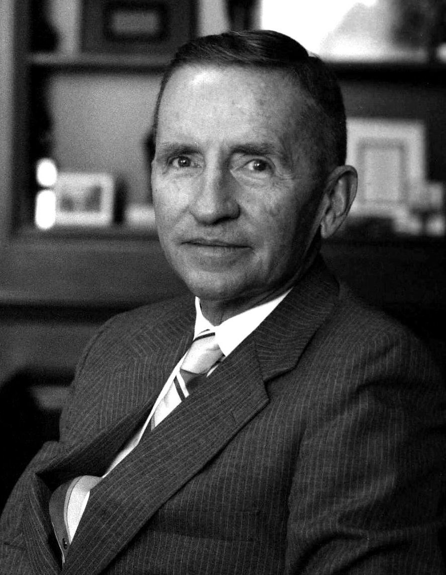 portrait of Ross Perot